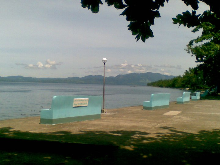 Jubas Pantalan